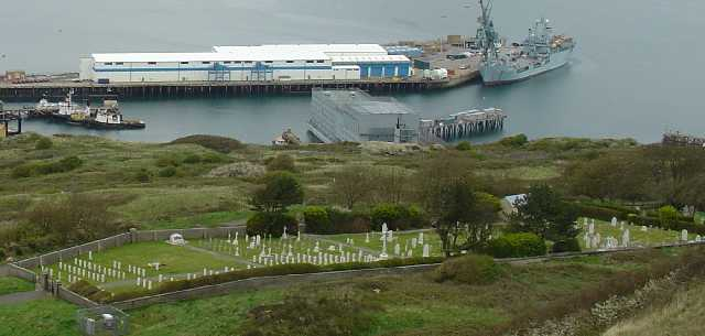 HM Prison The Weare, Floating Prison, Portland Harbour The Grey block in the centre of the picture is the prison. The prison is located in Portland Port (ex-Portland Royal Naval Dockyard). On the hillside above the port is a naval cemetery. The photo was taken from the road to HMP Verne.